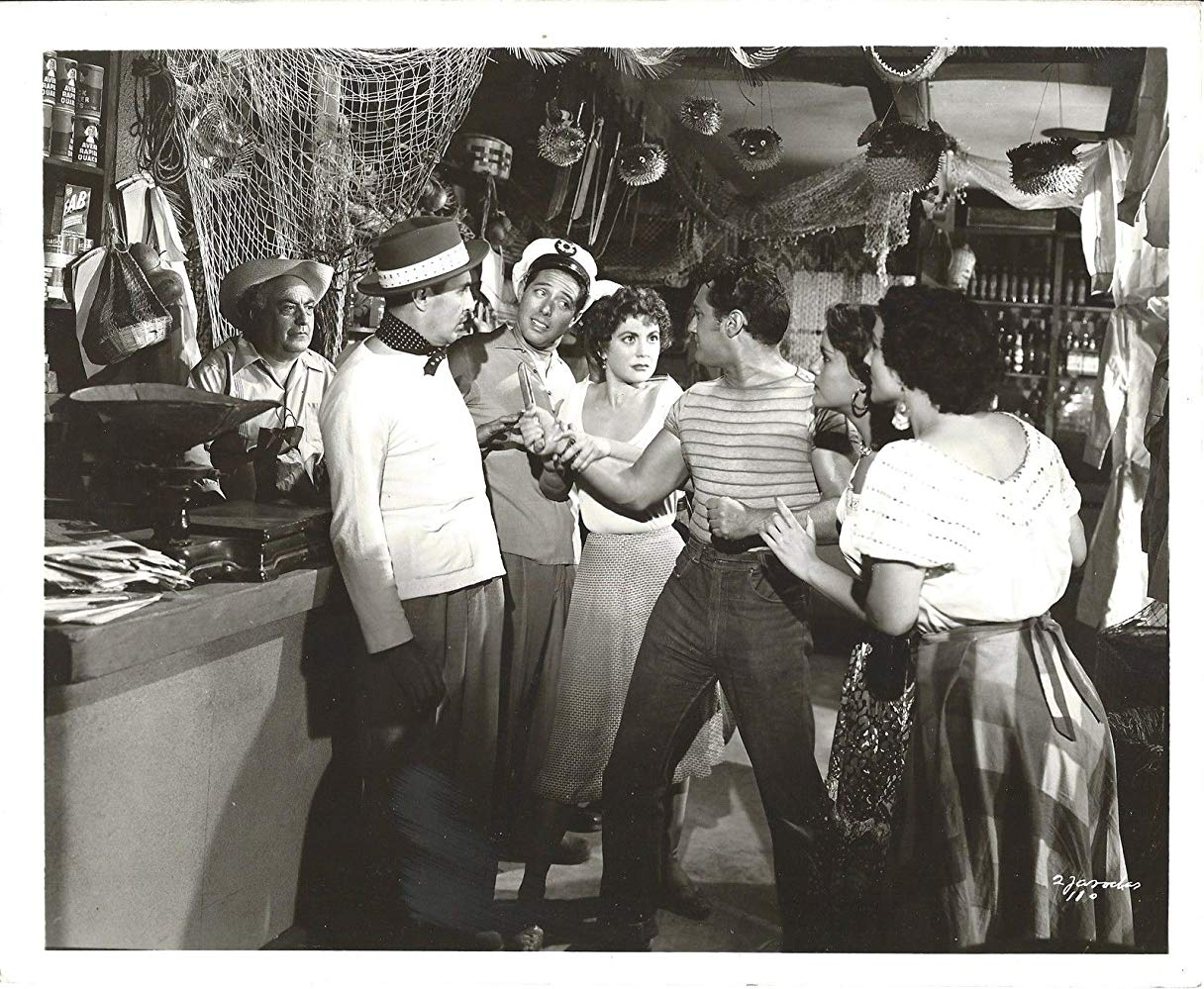 Production still from the motion picture Que Bravas Son Las Costenas (1955), starring Andy Russell, Evangelina Elizondo, Joaquin Cordero, Jorge Reyes, and Maria Antonieta Pons.